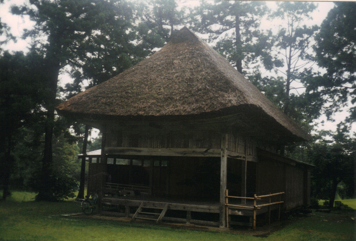 Traditional No Theatre near Daizen Shrine, Sado Island, Niigata Prefecture, Japan